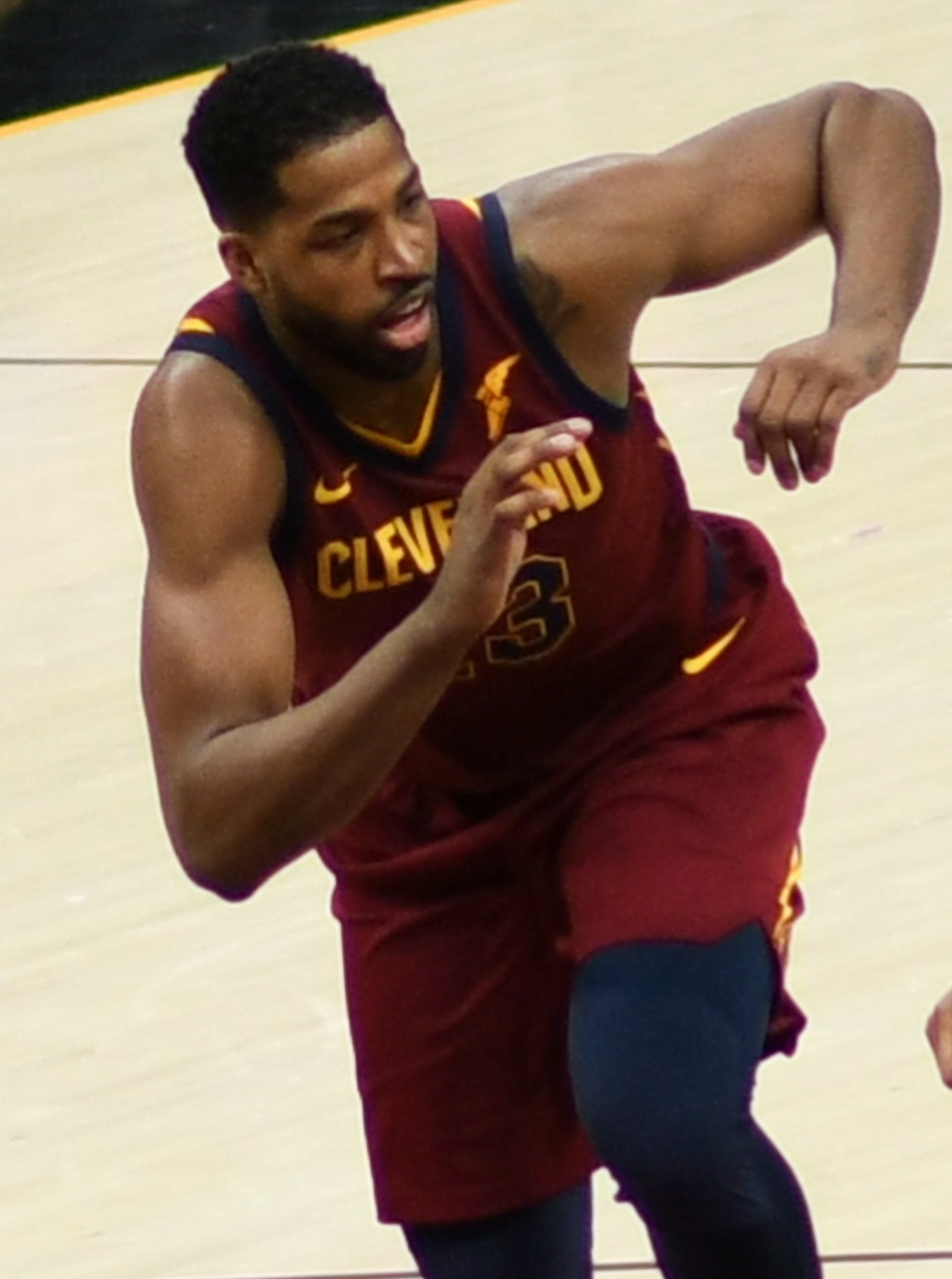 Tristan Thompson in 2018